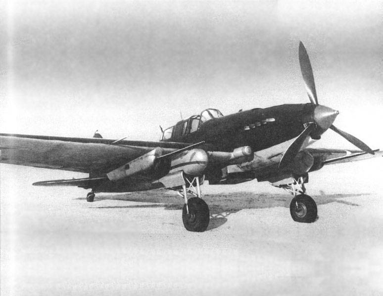 Iljushin Il-2 Fighter Plane with NS-37 machine cannon, Moscow, March 1943.